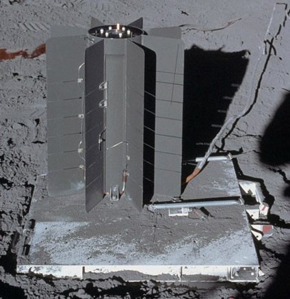 Apollo astronaut photo of a SNAP-27 RTG on the Moon.